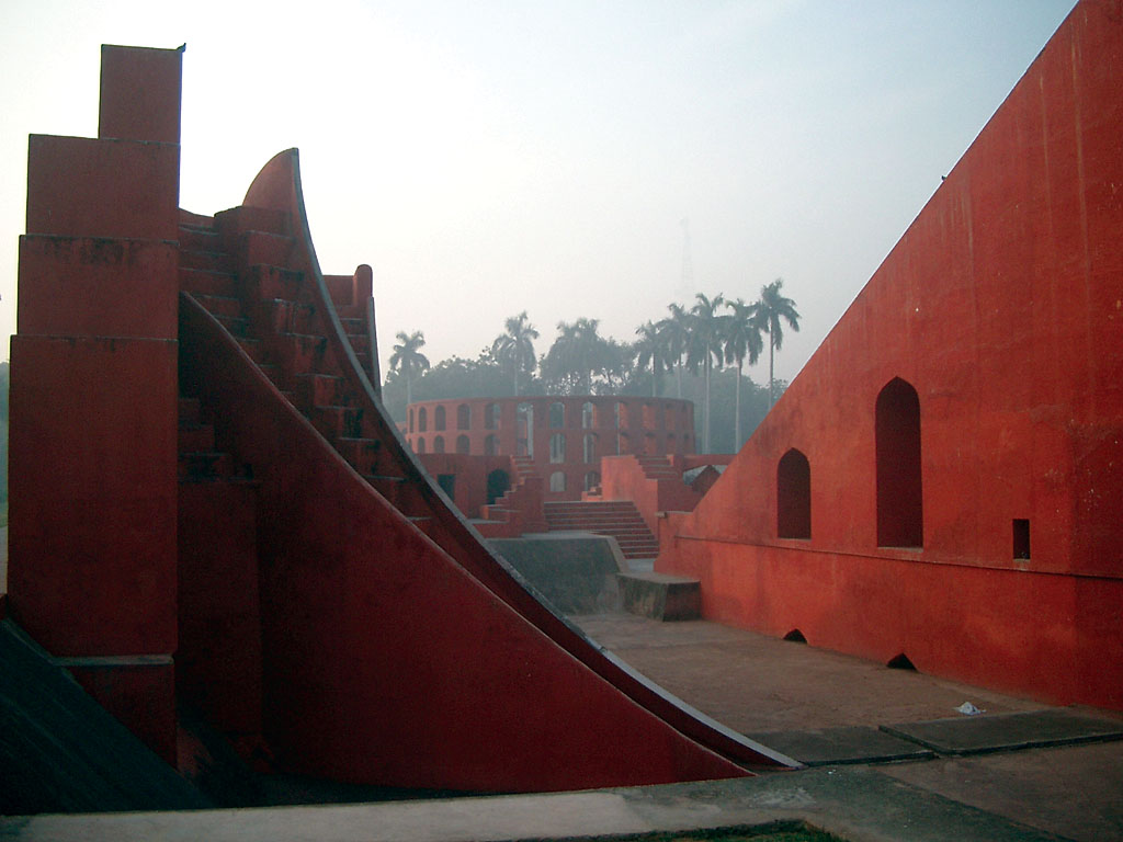 Various astrological structures at Jantar Mantar, Delhi.